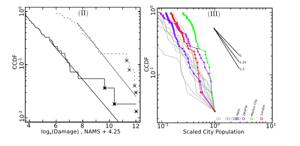 city sizes in a country and damage by nuclear power plant accidents according to their CCDF.